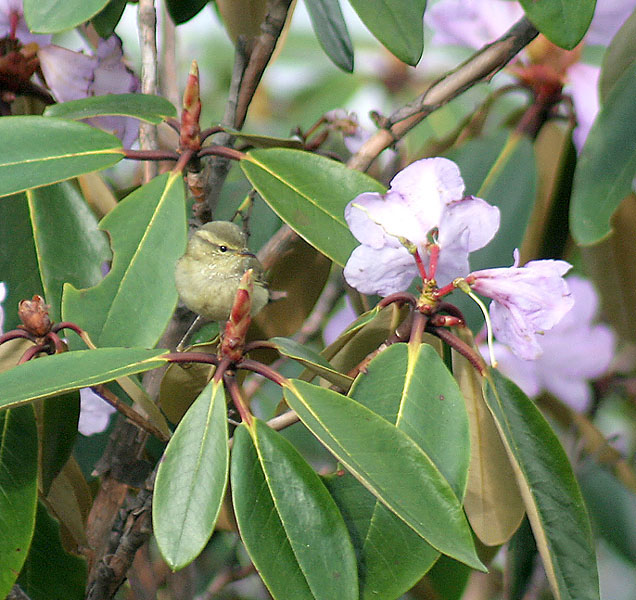 Hume's Warbler Phylloscopus humei in Kullu District of Himachal Pradesh, India.